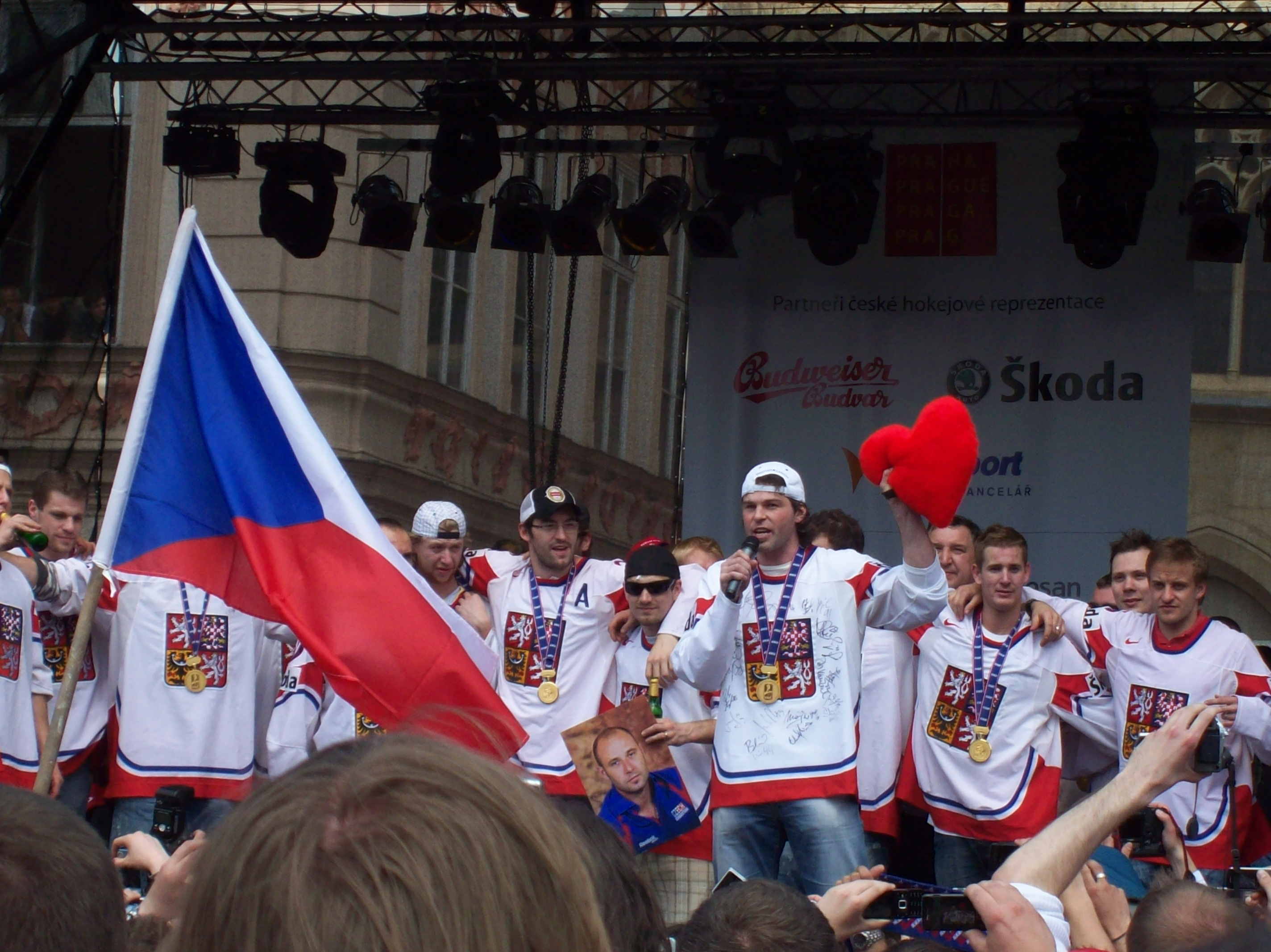 Jaromír Jágr, world ice hockey champion 2010